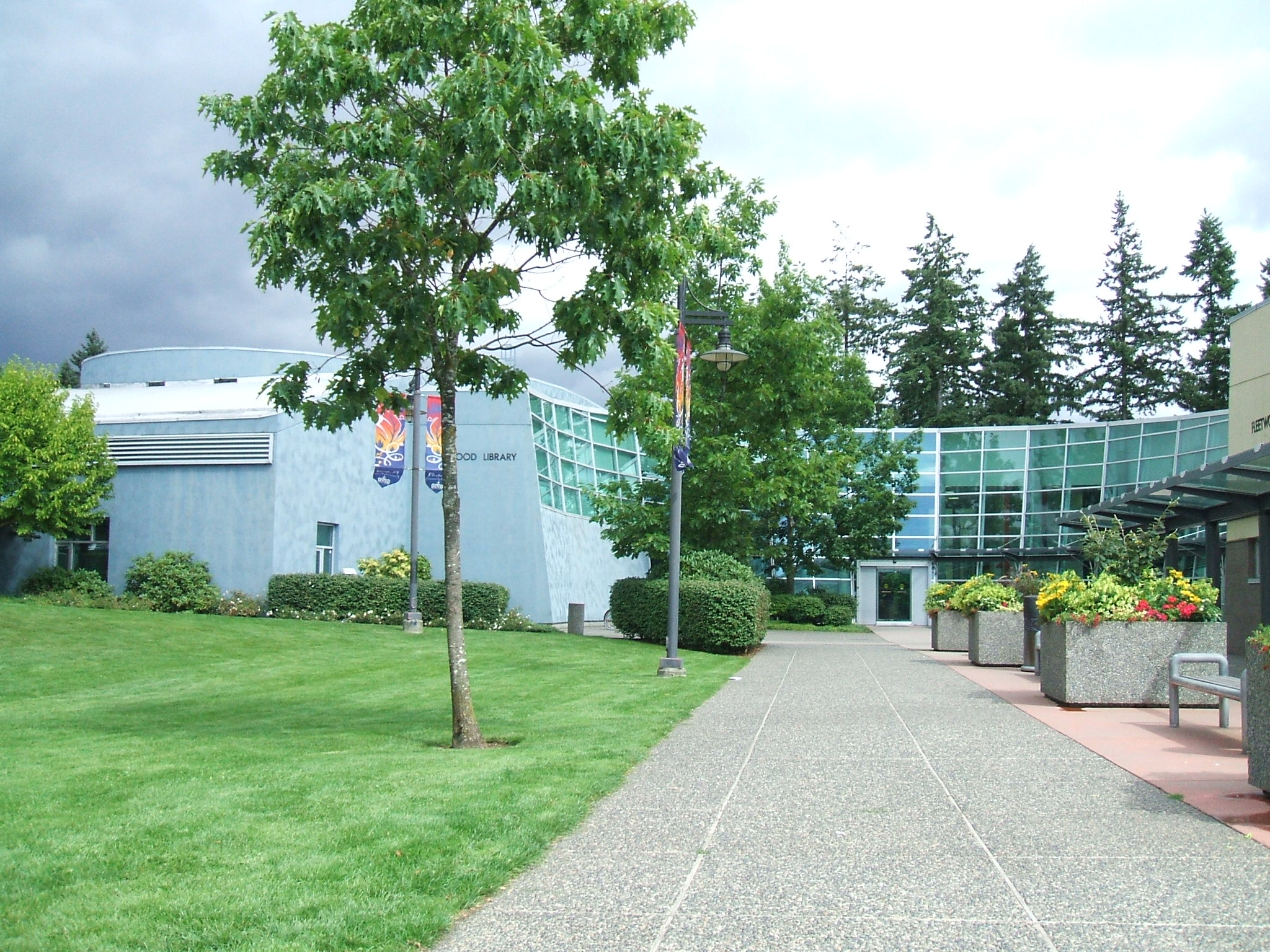 The Fleetwood branch of the Surrey Public Library at 15996 84th Avenue in BC, Canada.